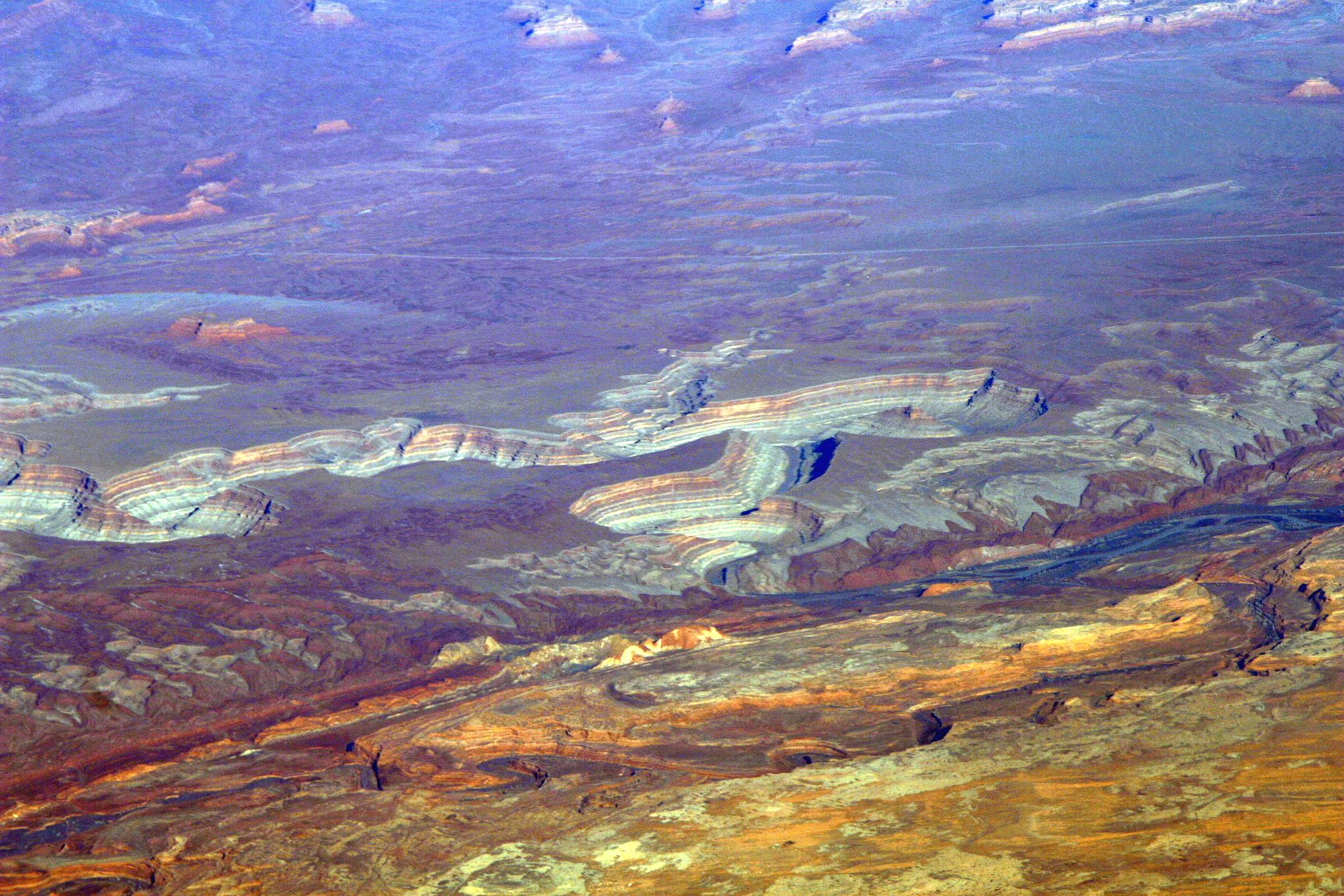 Goosenecks of the San Juan, Utah state park, USA. Author:dsearls